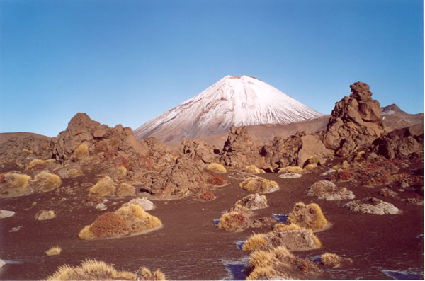 Mount Ngauruhoe from the old lava flow of the Red Crater, Tongariro National Park